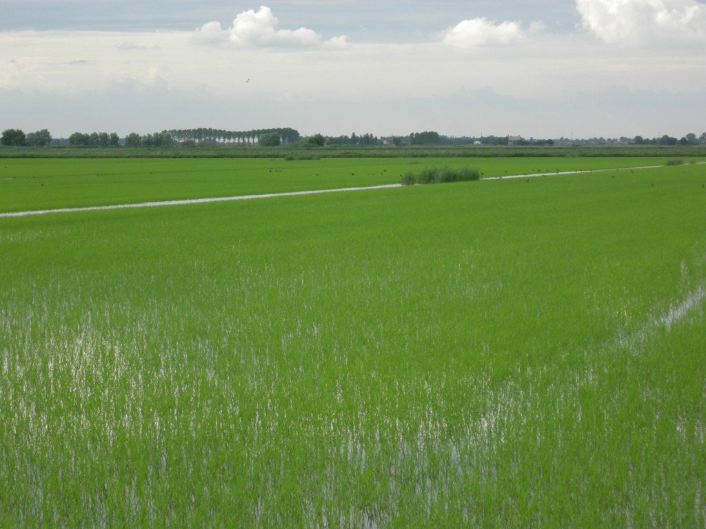 Rice fields in Jolanda di Savoia, Province of Ferrara, Italy